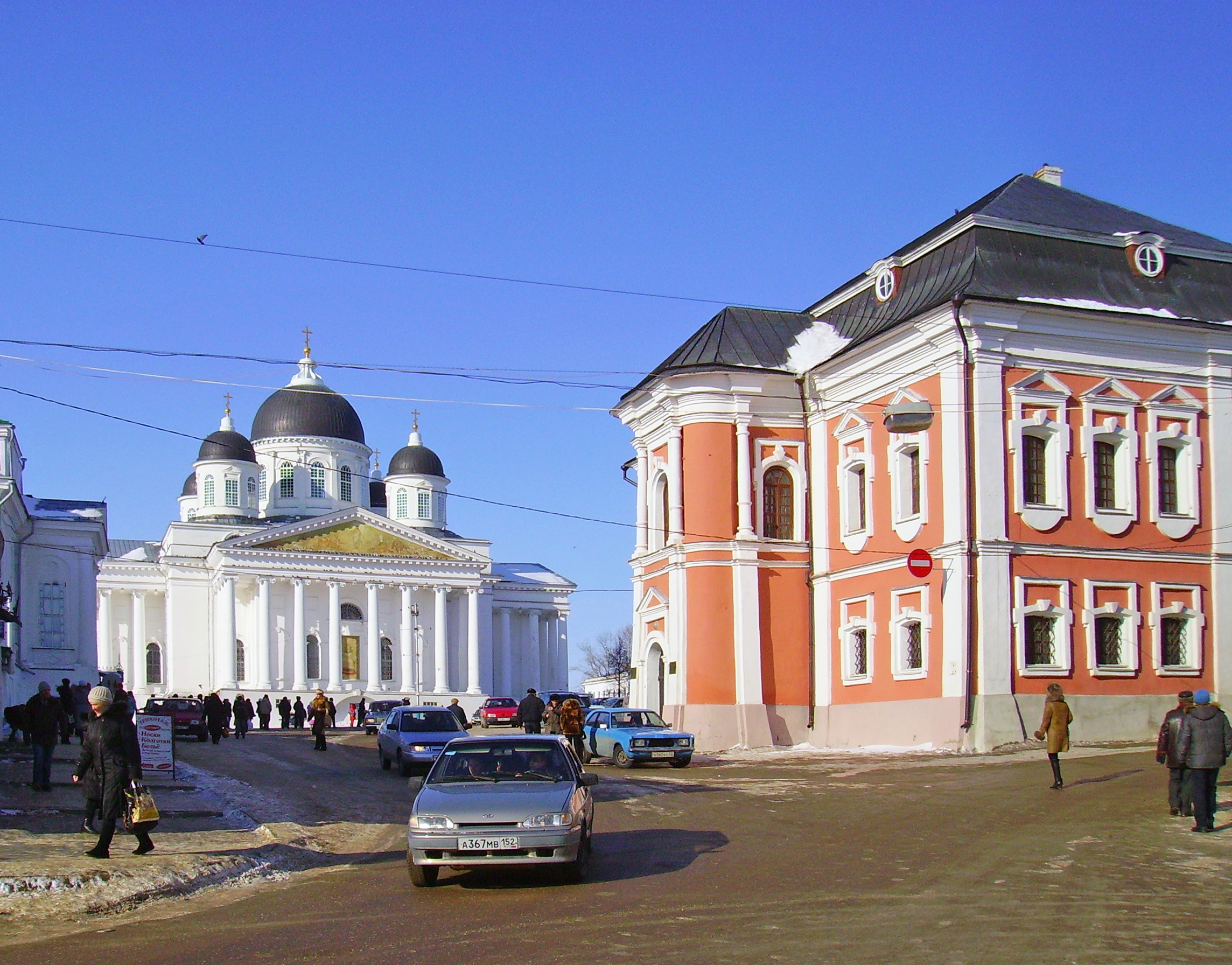 Arzamas. Near heritage building of Magistrat